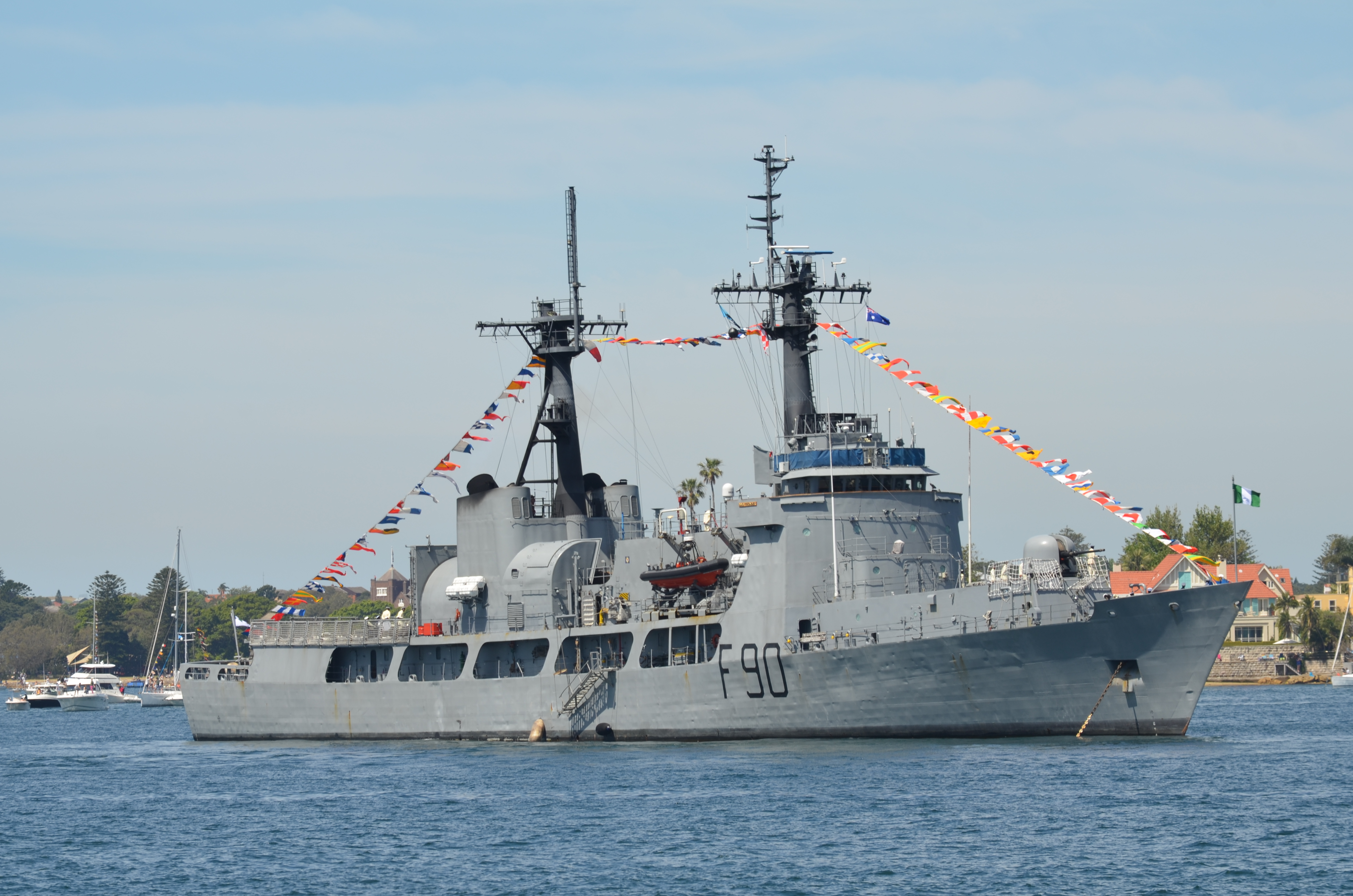 Photographs taken during day 3 of the Royal Australian Navy International Fleet Review 2013. Nigerian frigate Thunder, moored on Sydney Harbour.